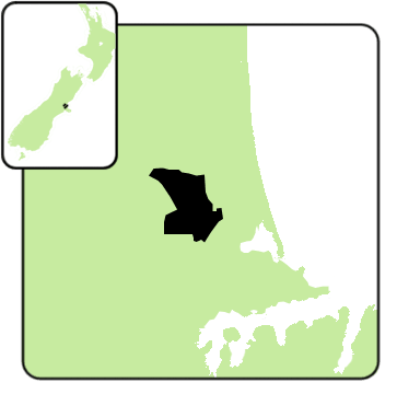 Map showing location of electorate based on boundaries for 2008 and 2011 elections.